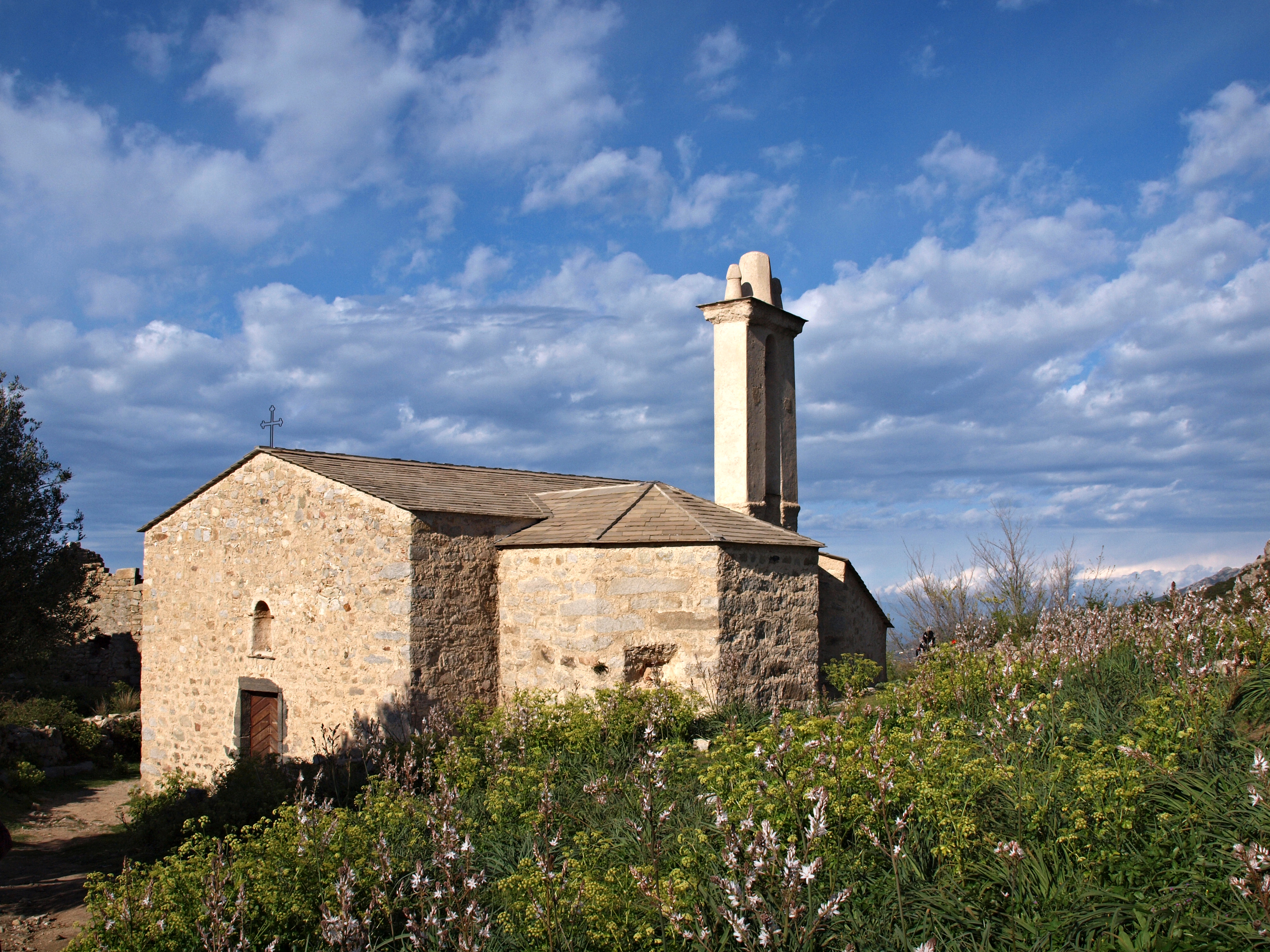 Lumio, Balagne (Corsica) - Church of the Announciation at Occi; village has been abandonned in 1927